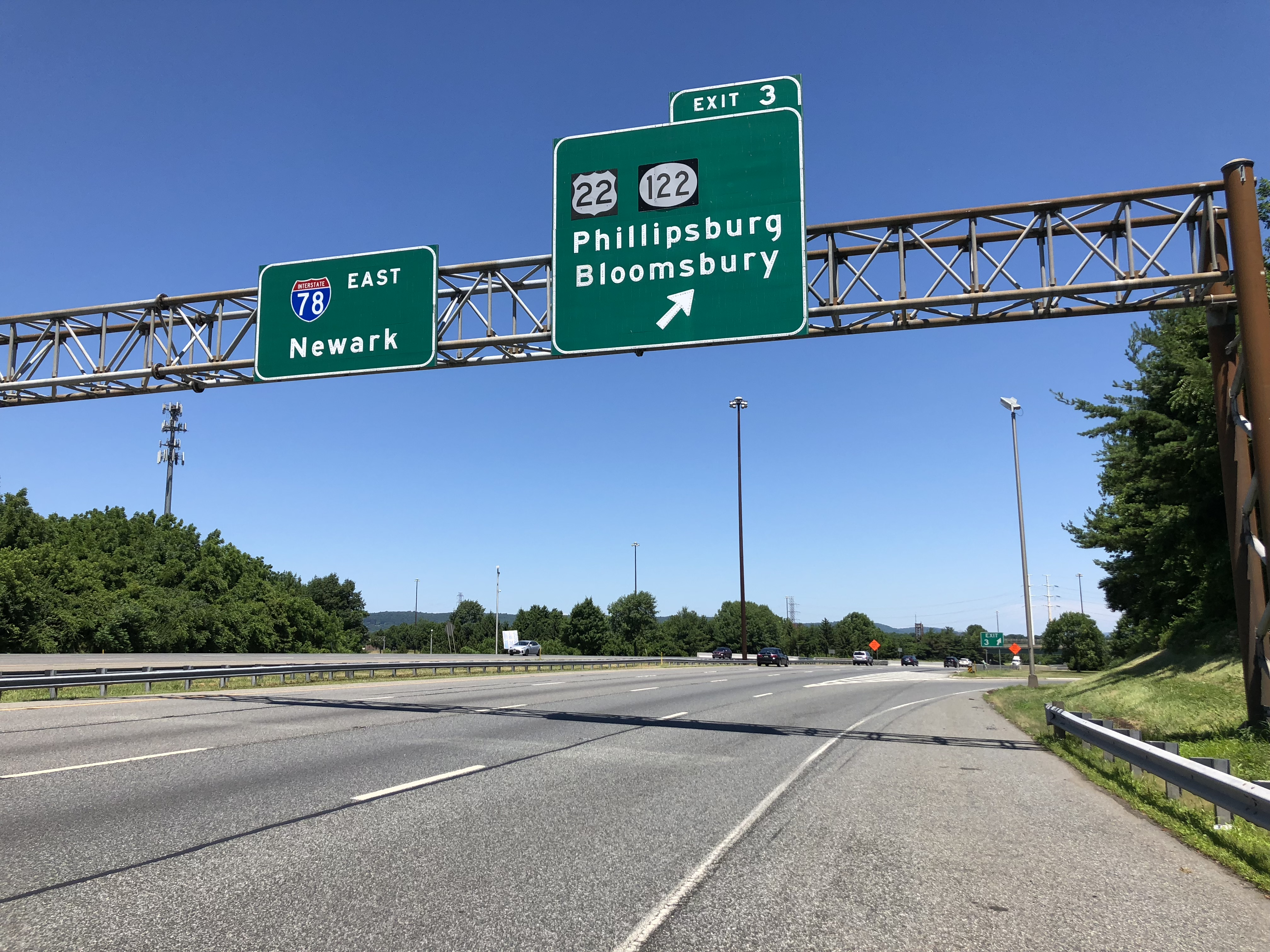 View east along Interstate 78 (Phillipsburg-Newark Expressway) at Exit 3 (U.S. Route 22, New Jersey State Route 122, Phillipsburg, Bloomsbury) in Pohatcong Township, Warren County, New Jersey